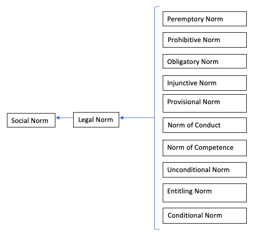 10 various general norms that inform a legal norm within an example of an ontological model.